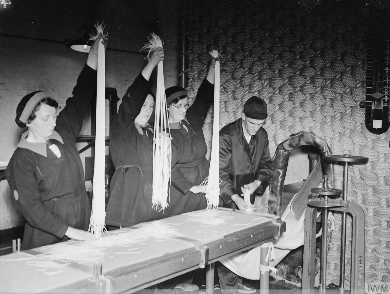 War Industry in Britain 1939-1945 Cordite production at a Royal Naval armaments factory at Holton Heath. The long strings of cordite are combed by women workers in order to eliminate short lengths.